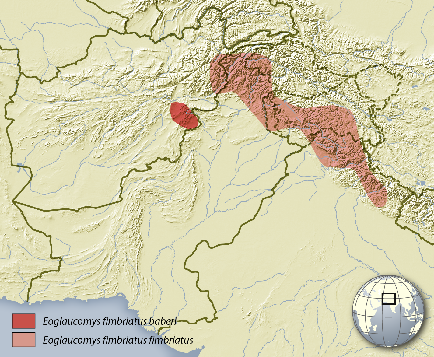 Distribution map of the Kashmir flying squirrel